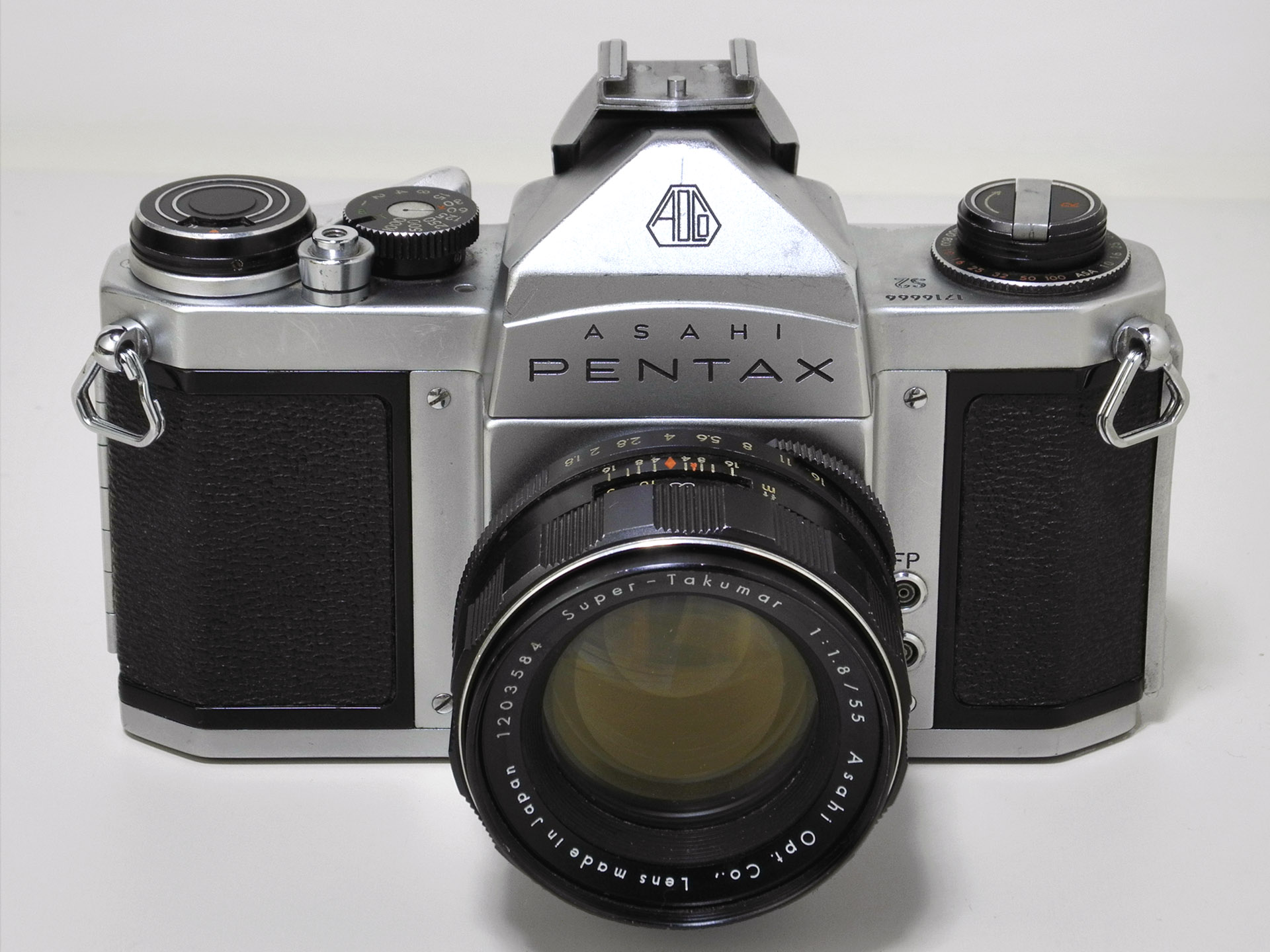 Pentax S2 w/55mm f/1.8